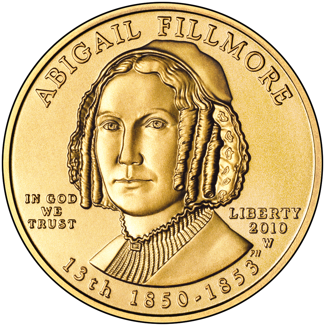 First Spouse Program gold coin for Abigail Fillmore. Obverse.